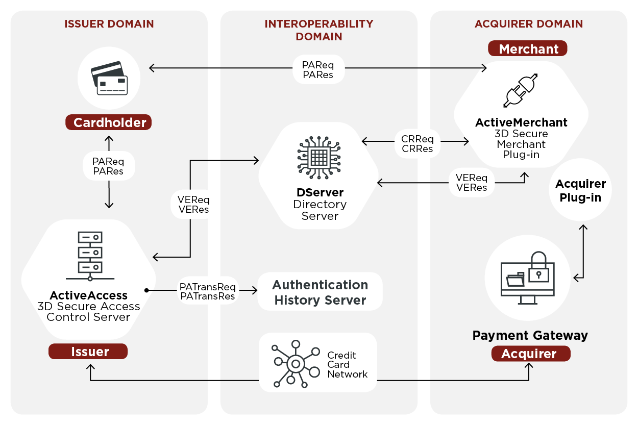 The diagram describes the 3D Secure 1.0.2 transaction flow and entities involved.